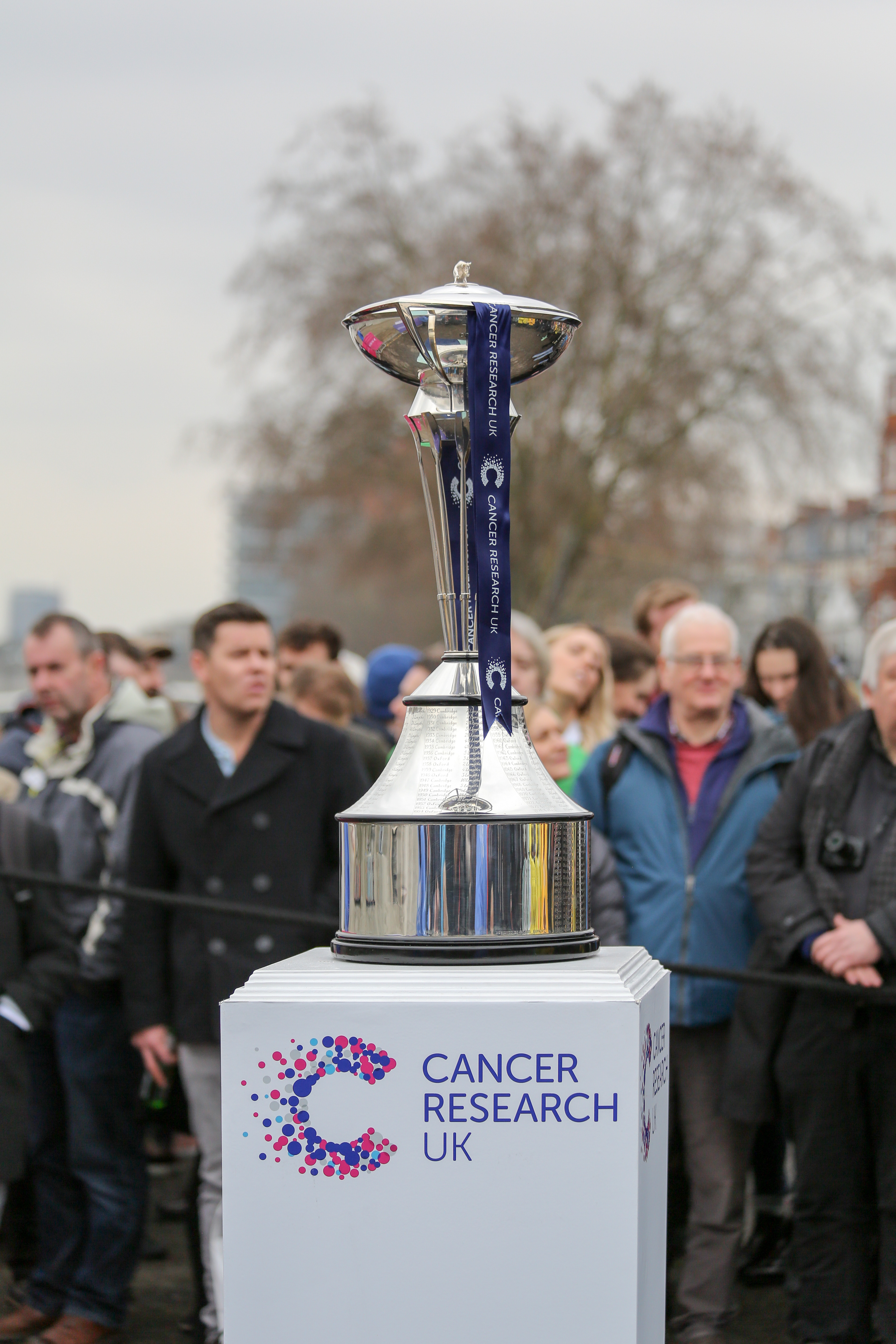 The trophy for The Boat Race, shown here before the 2018 race